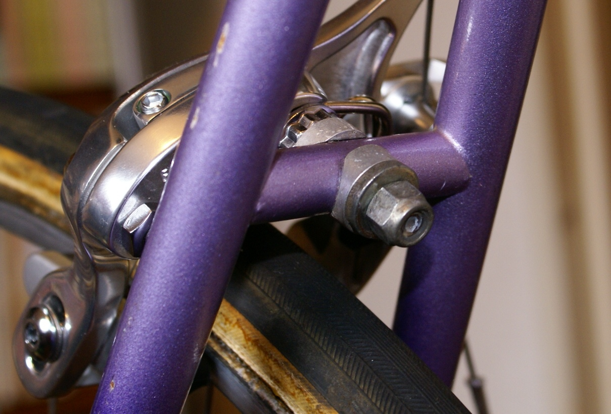 Bridgestone roadbike RADAC rear brake